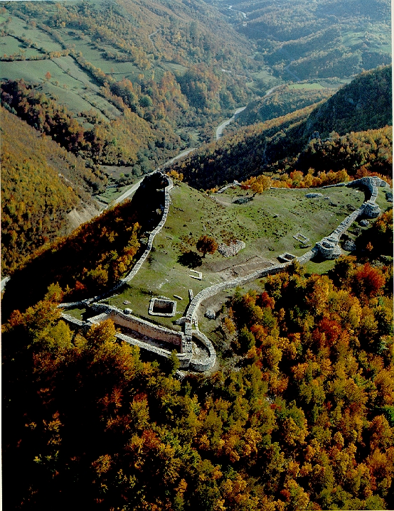 Ras, one of the first capitals of the medieval Serbian state.